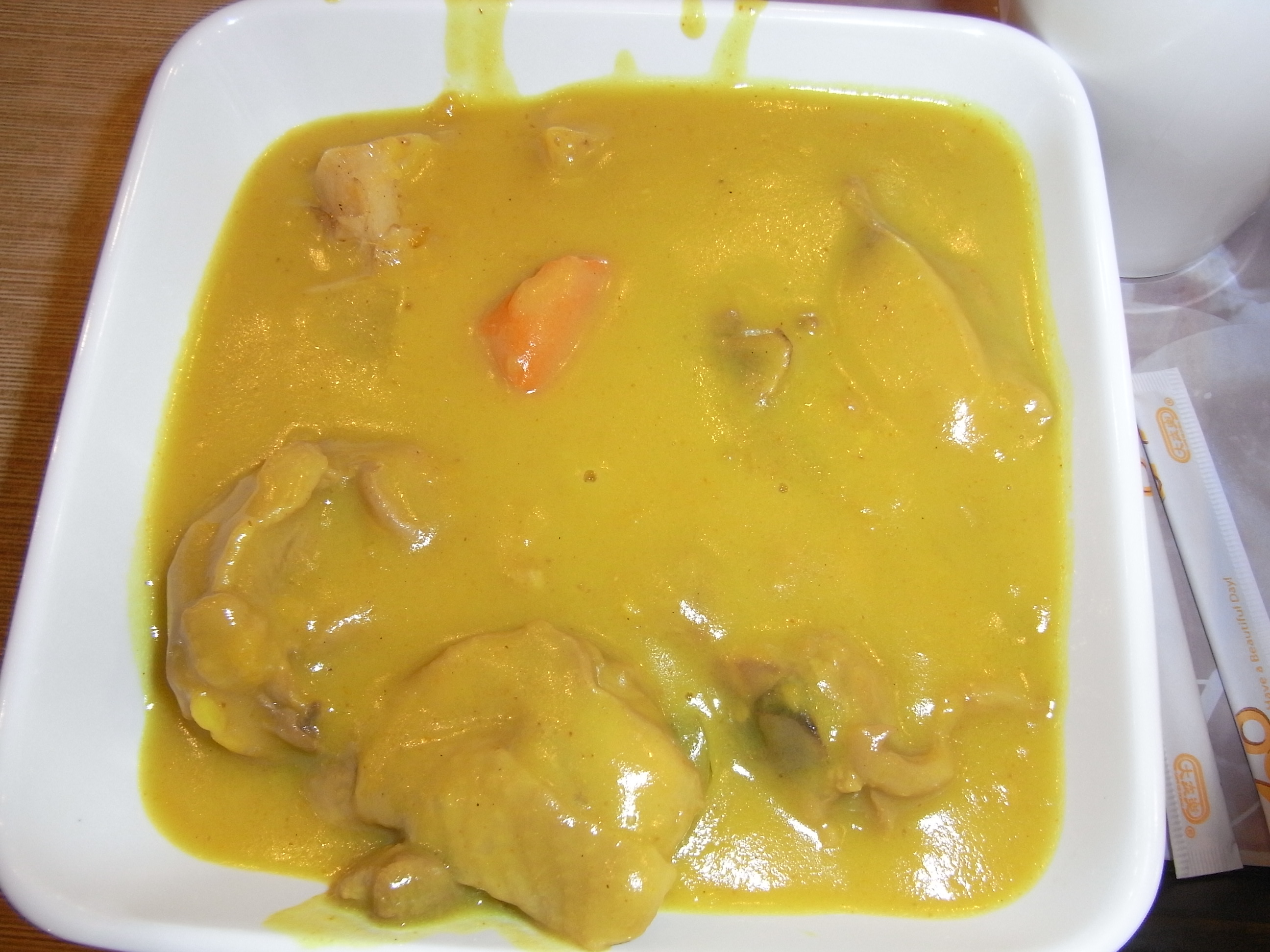 大家樂, Cafe de Coral, Hong Kong